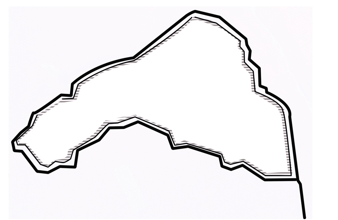 Plan of Delgrad fortress